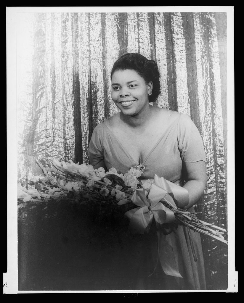 Portrait of Carol Brice (April 16, 1918 - February 15, 1985), American contralto